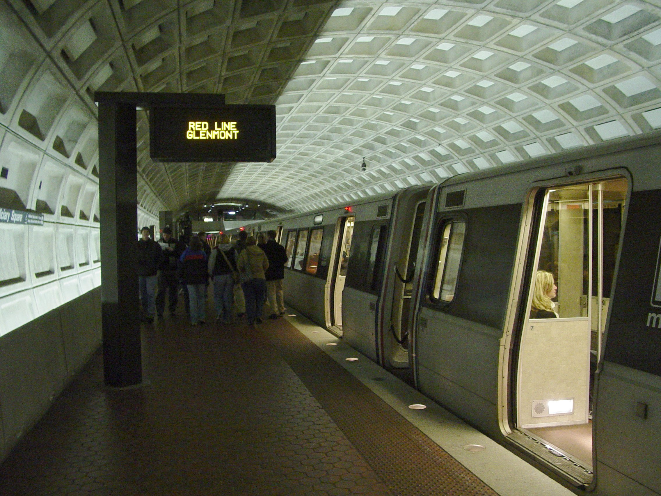 Washington Metro, Judiciary Square station.